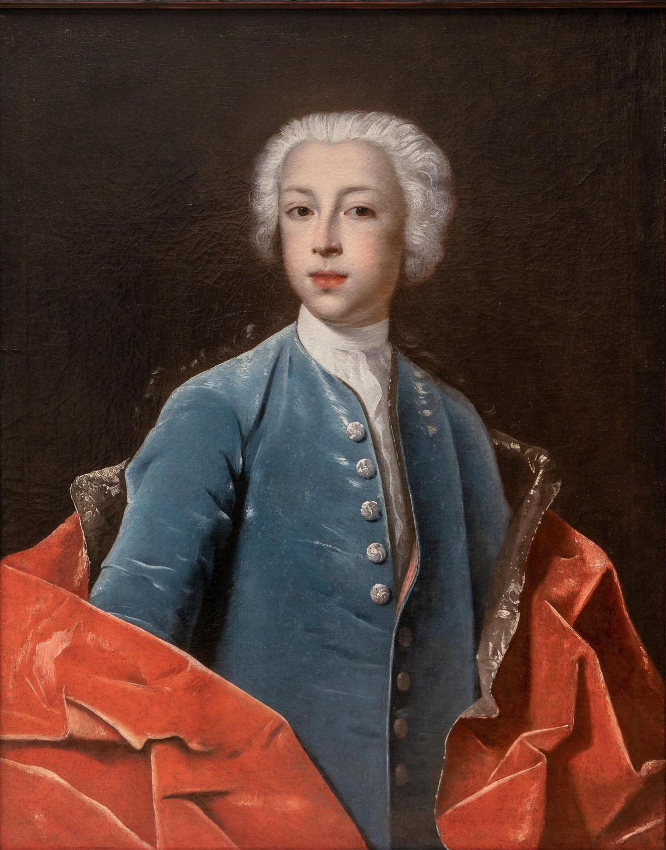 Portrait of Ivan Osterman (1725-1811)